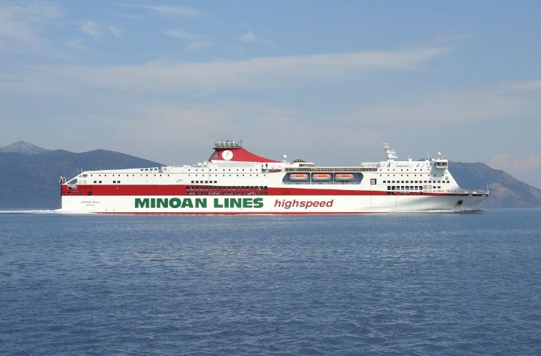 These buggers kicked up quite a wash!